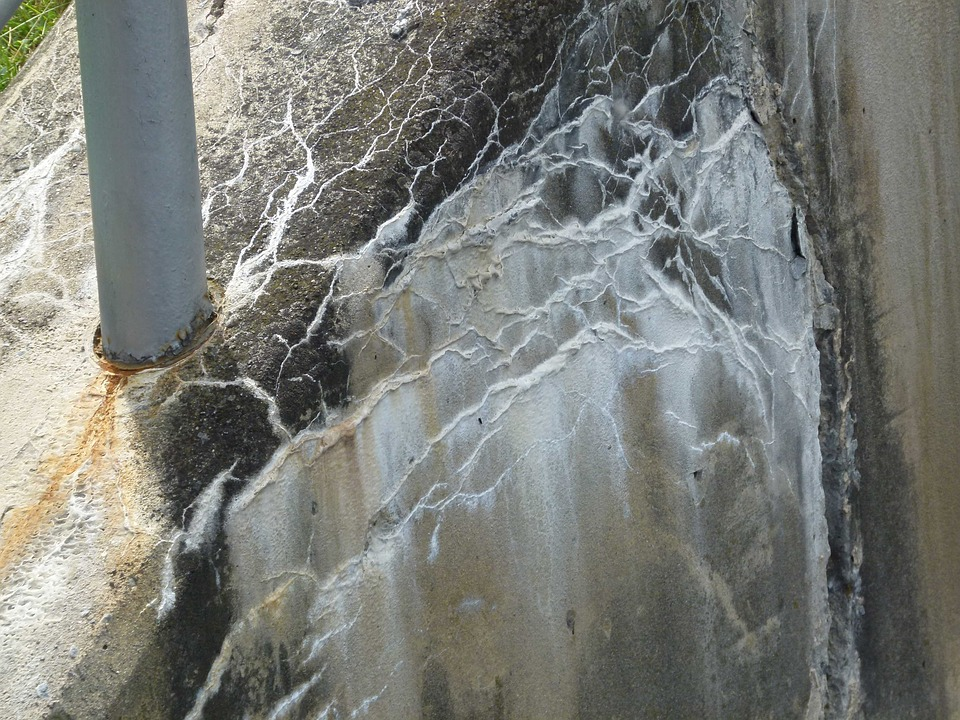 Cement wall with leaching occurring causing the white discoloration.